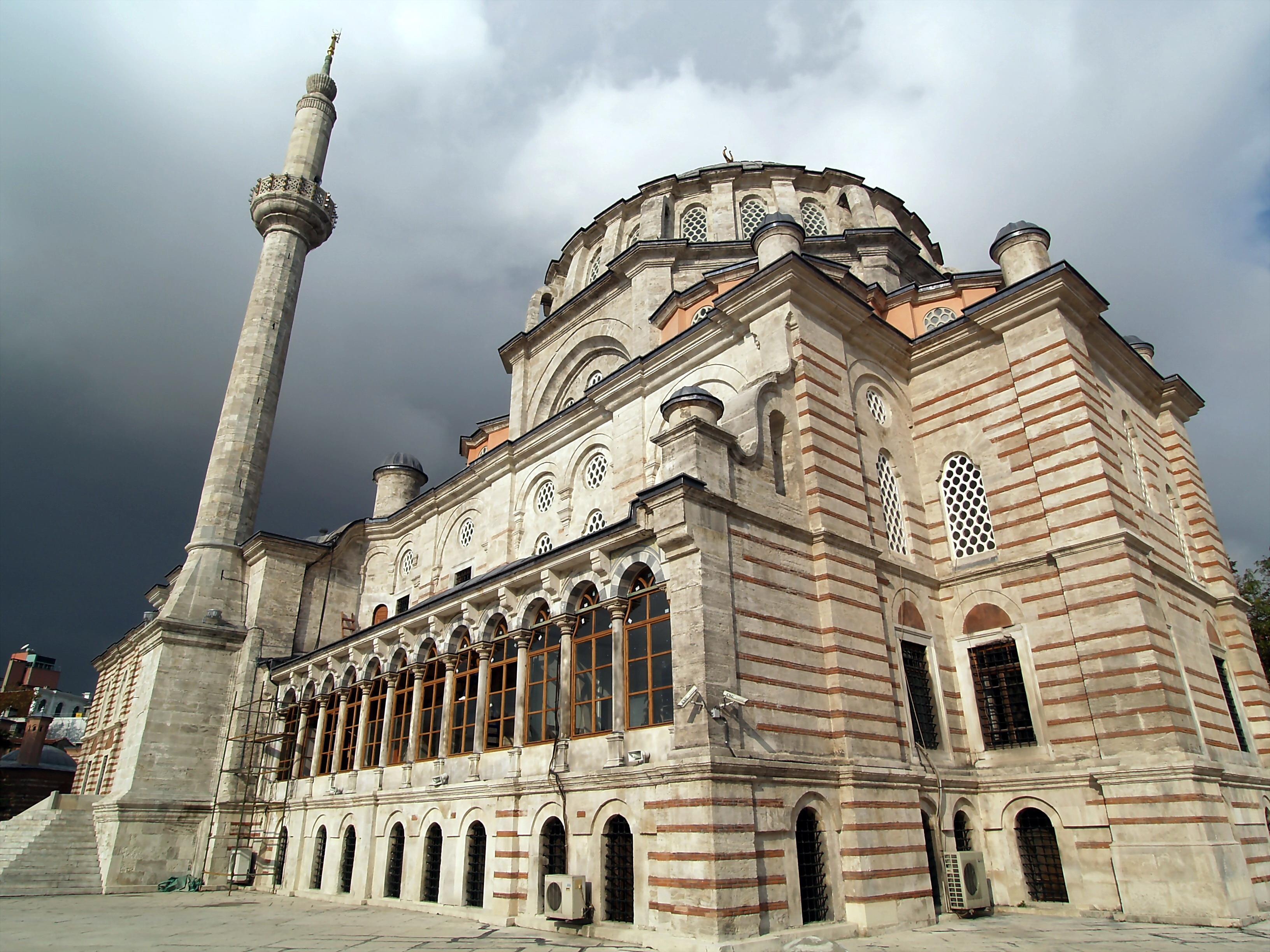 View of Laleli Mosque, Istanbul, Turkey